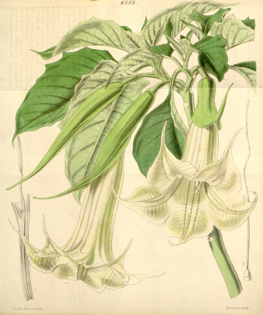 Brugmansia arborea flower. Originally published as Datura cornigera.